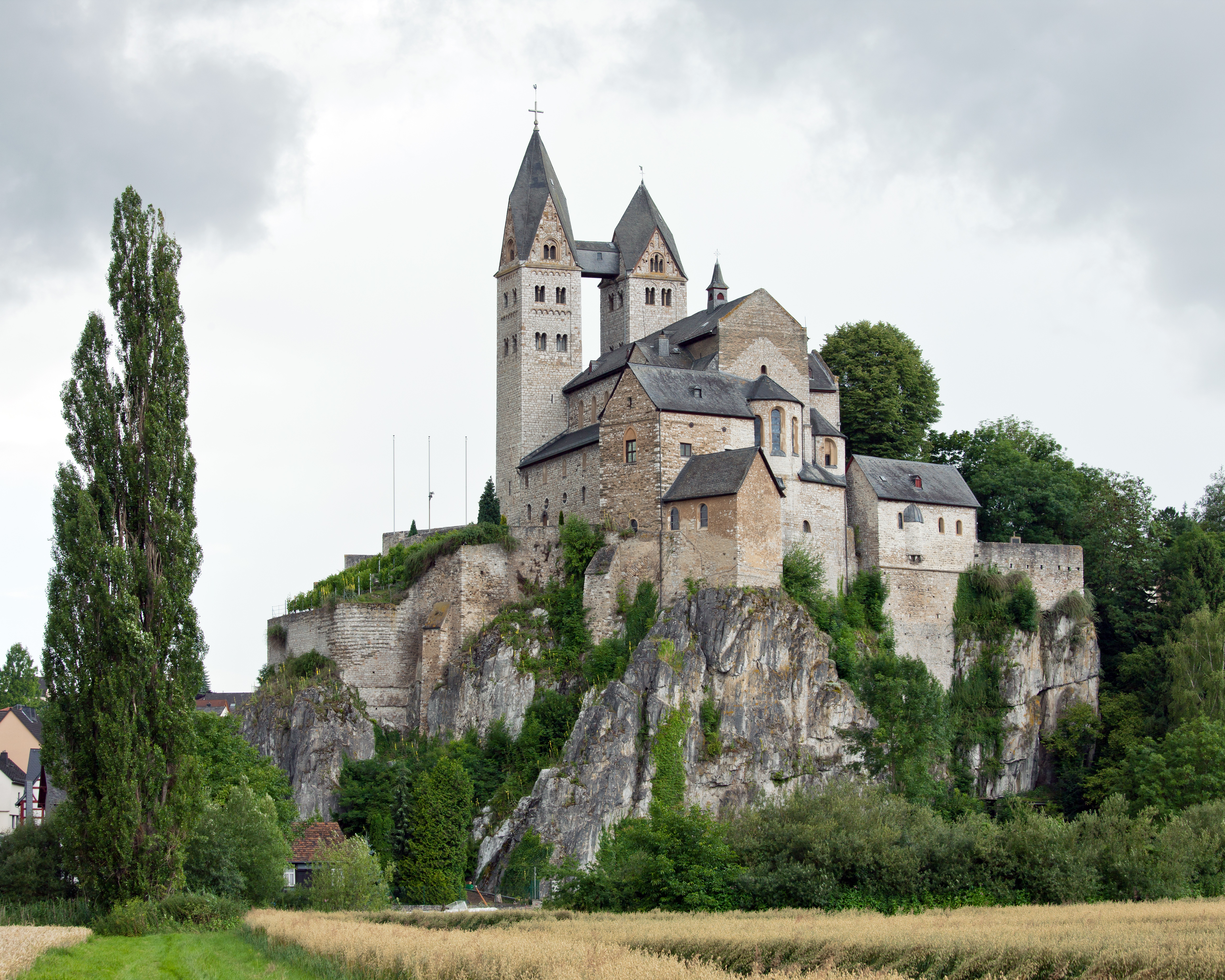 Limburg an der Lahn-Dietkirchen: St. Lubentius as seen from the east